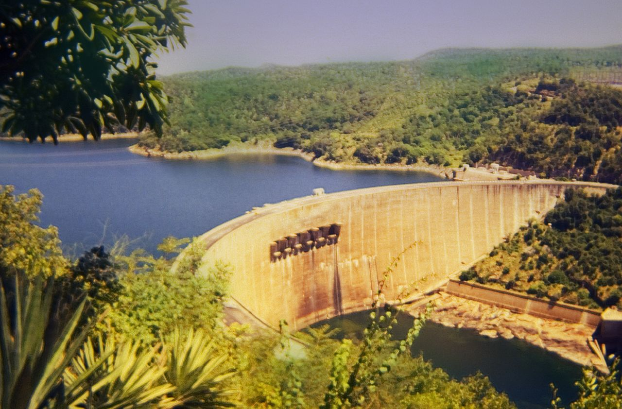 Kariba Dam, Zimbabwe. Photo converted from 35mm slide film to digital.